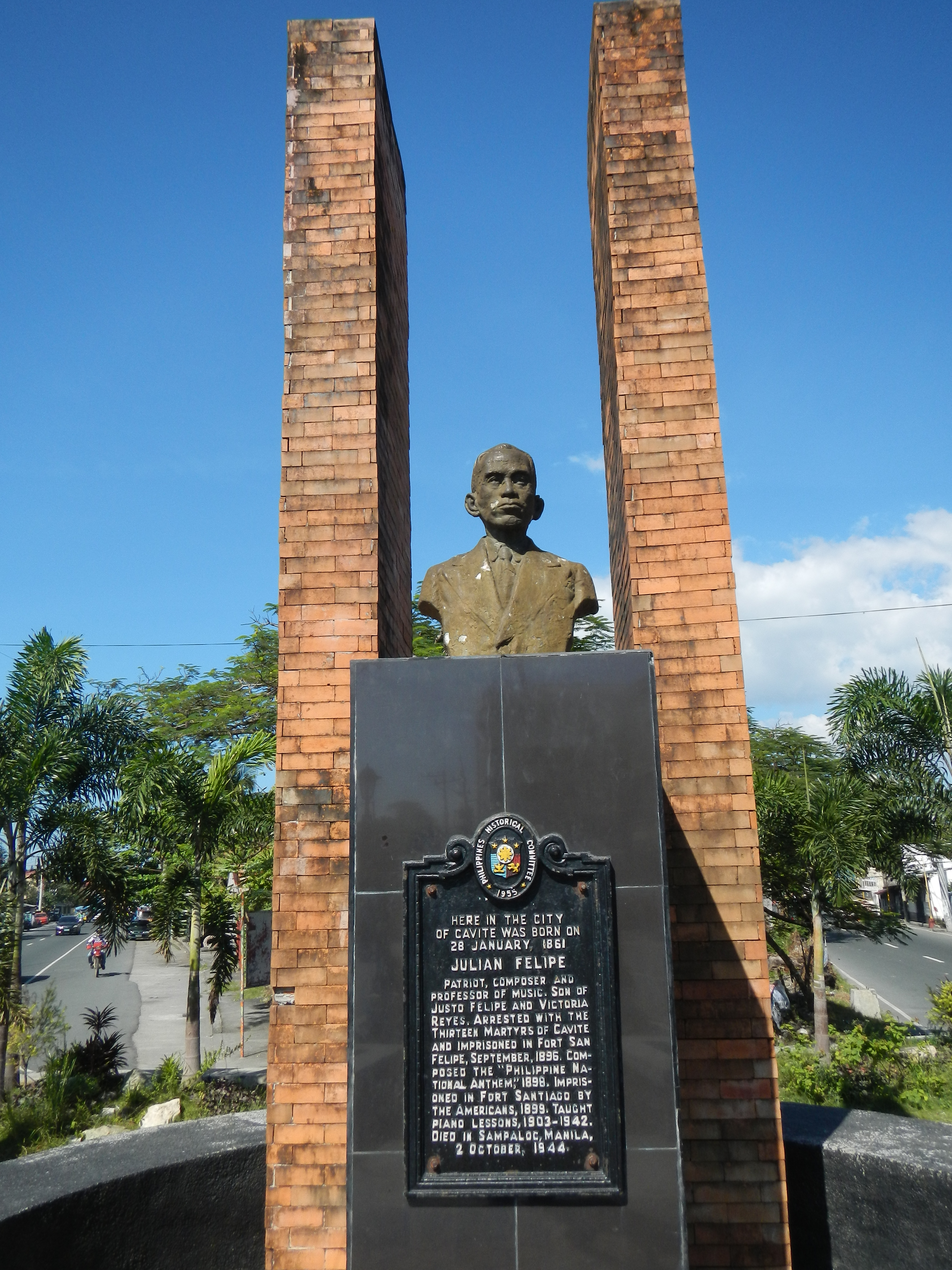 Upload Wizard photos of Julián Felipe[1] Monument and Statue, b) along Cavite City National Highway near the San Sebastian College – Recoletos de Cavite under Father Palomar, OAR [2] - Cavite City[3].